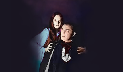 Cropped and edited lobby card featuring Bela Lugosi and Carroll Borland in Mark of the Vampire (MGM, 1935). Image is assumed to be in the public domain as no copyright notice has been attached.